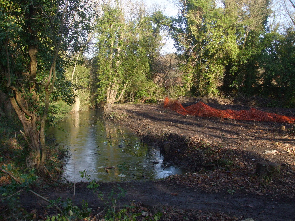 The outfall of Latchmere Stream in Ham Woods, Ham Common, near to Ham Gate of Richmond Park from Ham Gate Avenue looking north. Recent renovation work is visible including tree and scrub clearance and silt dredgings deposited behind the orange fencing. 2 December 2012